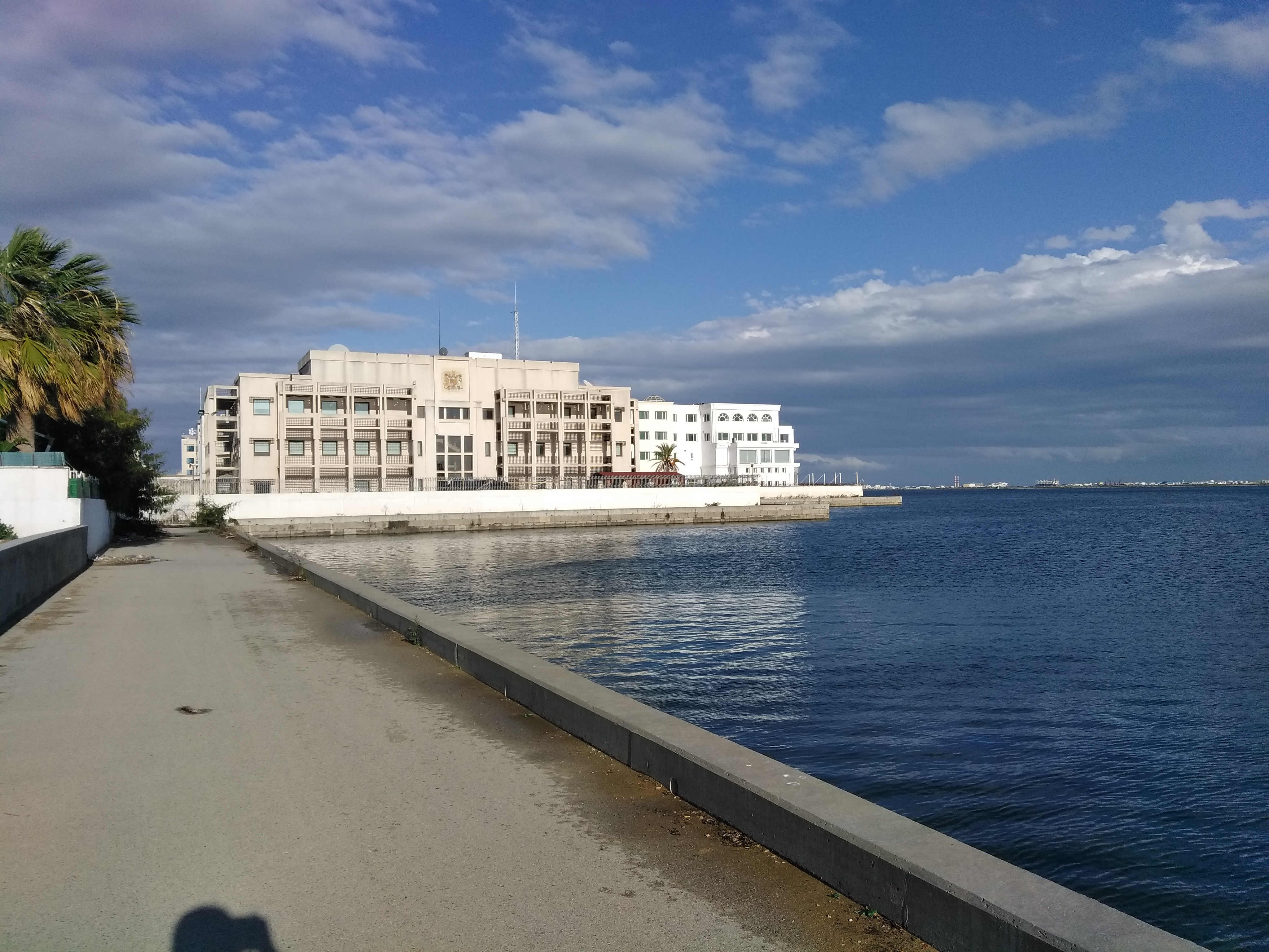 British embassy in Tunis as seen from the Les Berges du Lac boulevard